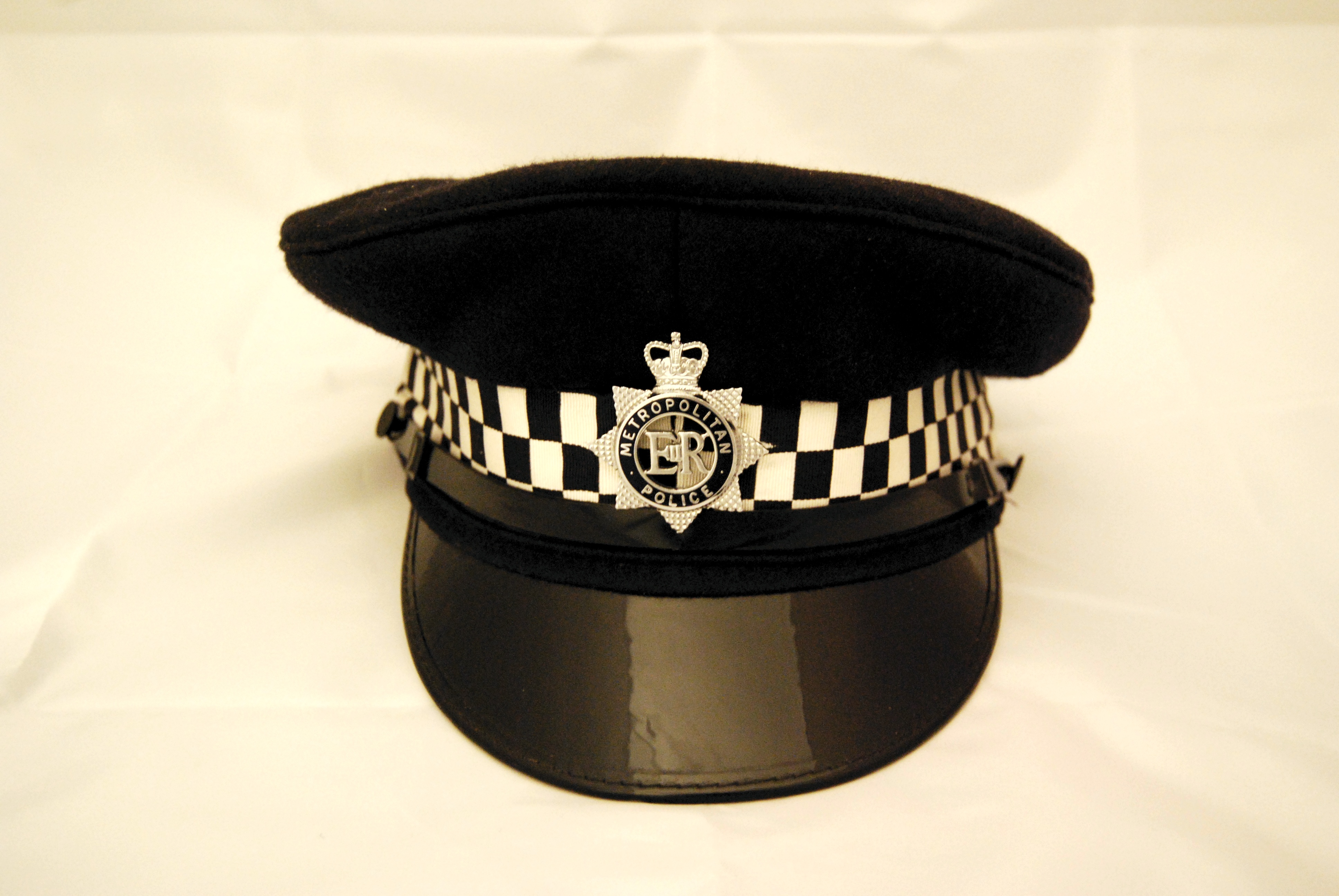 Metropolitan Police peaked cap